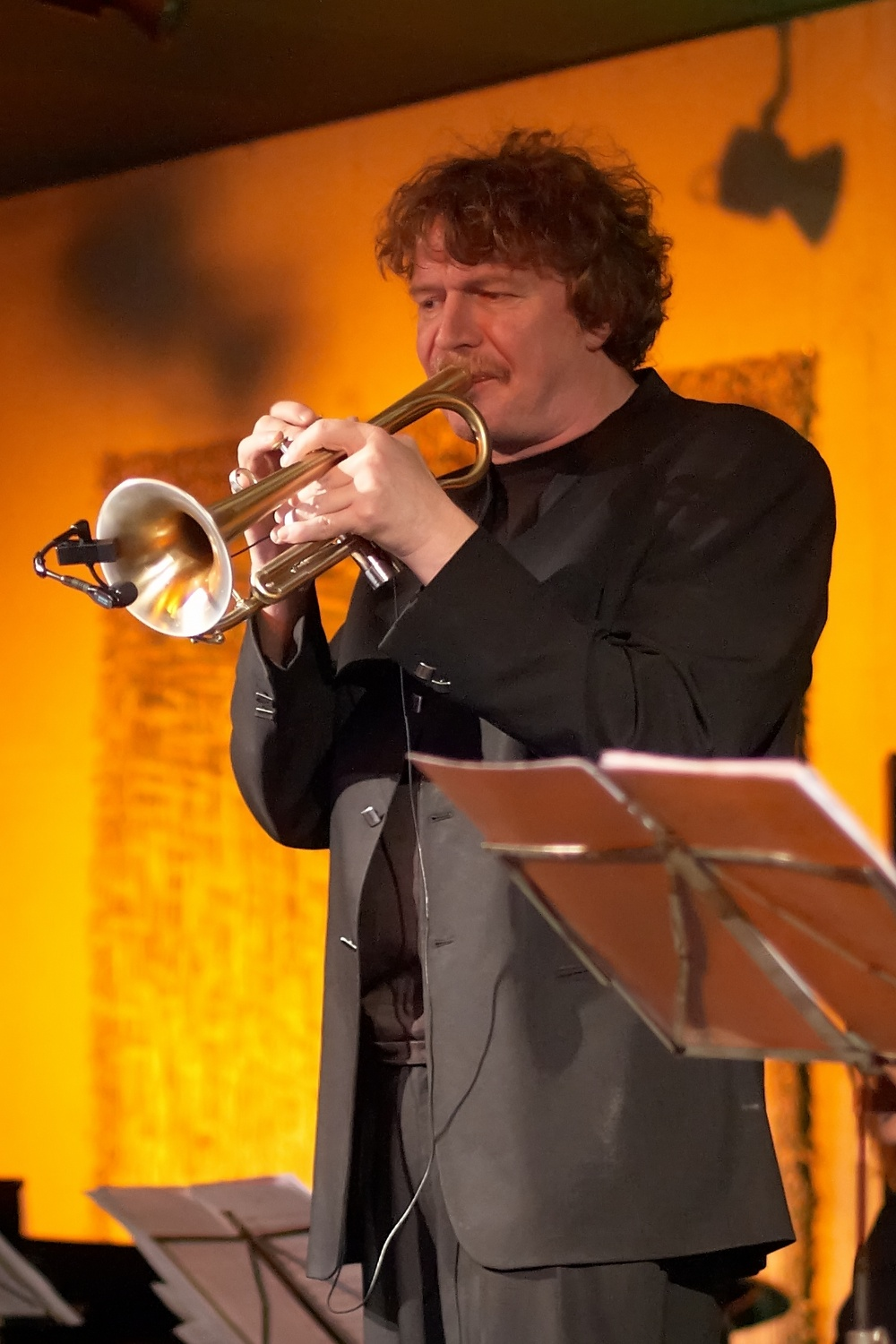 Hans-Peter Salentin in concert with Julia Sawicka, "Fields of Soul - Live Experience", Warsaw 2013.